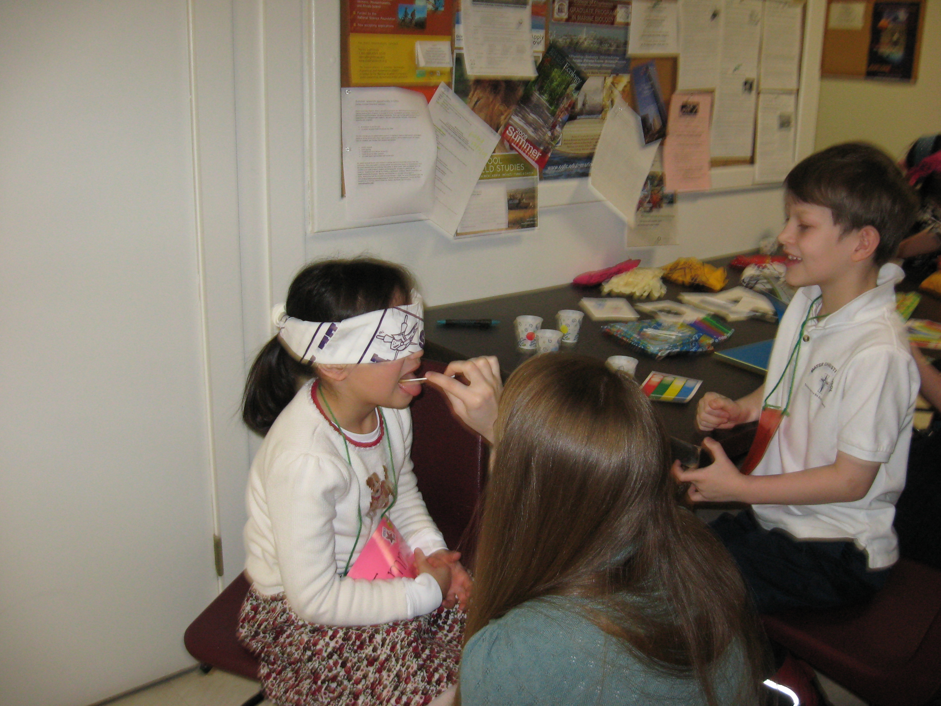 tantalizing taste buds experimenters